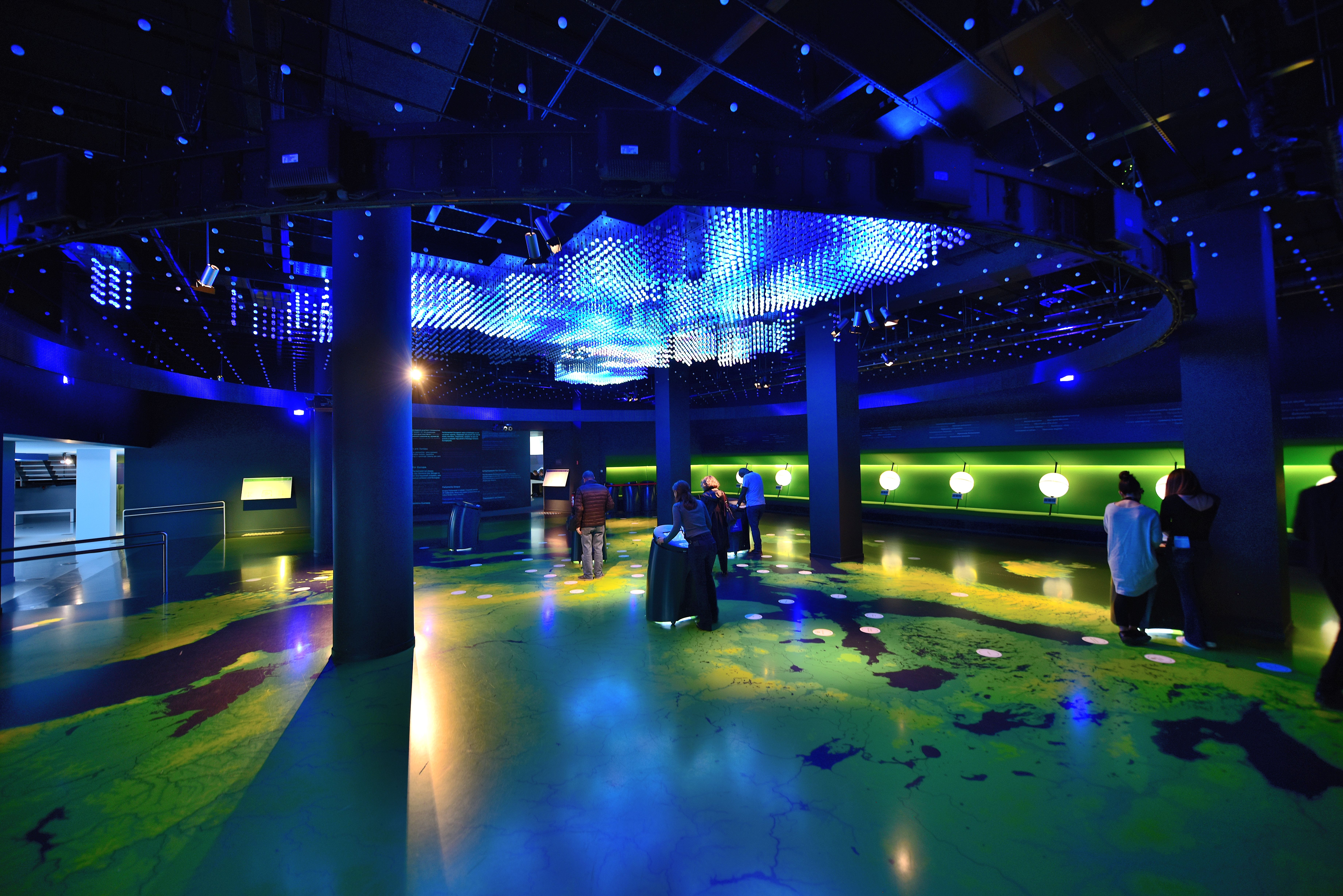 Parlamentarium in Brussels